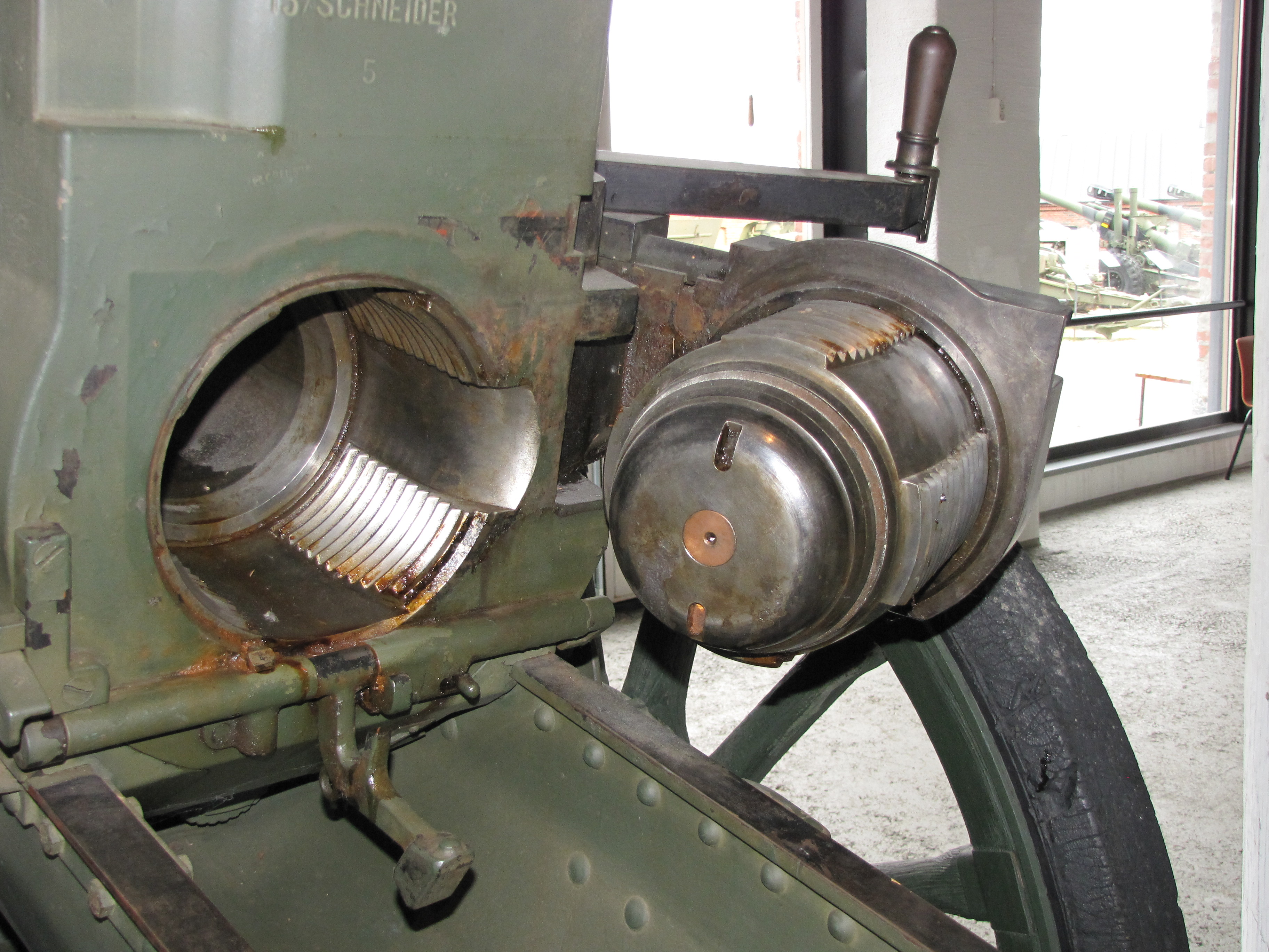 Interrupted screw breech of 152 H 17 howitzer in Hämeenlinna artillery museum. A 152 mm version of French Canon de 155 C modèle 1917 Schneider, eight of which were ordered by Finland in 1928. Original wooden wheels with solid rubber tires for motor towing. Manufactured by Schneider in 1929, serial number 5, breech block manufactured by VTT in 1943, rebarreled in 1944.